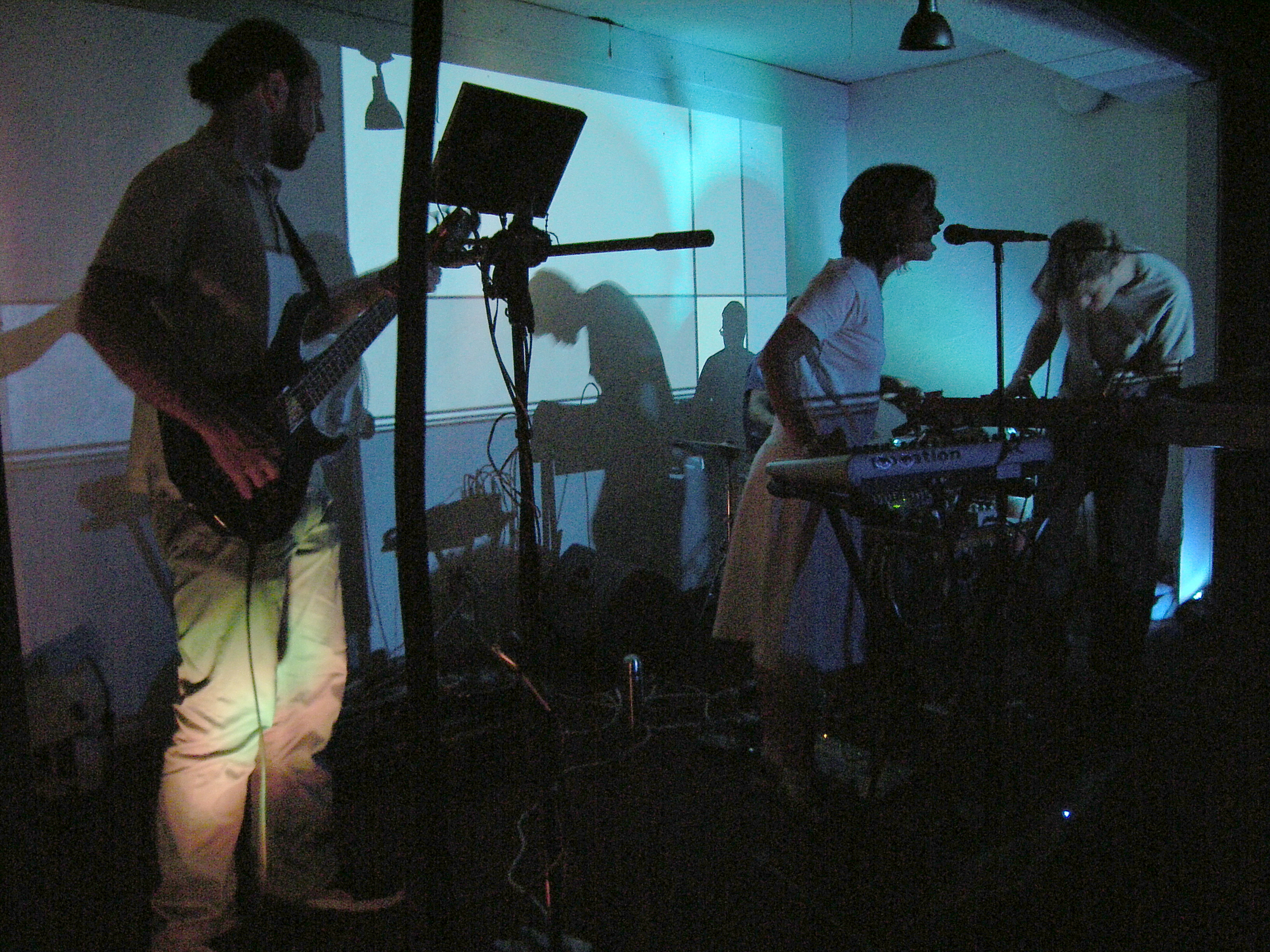 Portland, Oregon-based band Dendrites performing at the 14th Olympia Experimental Music Festival, Olympia, Washington.